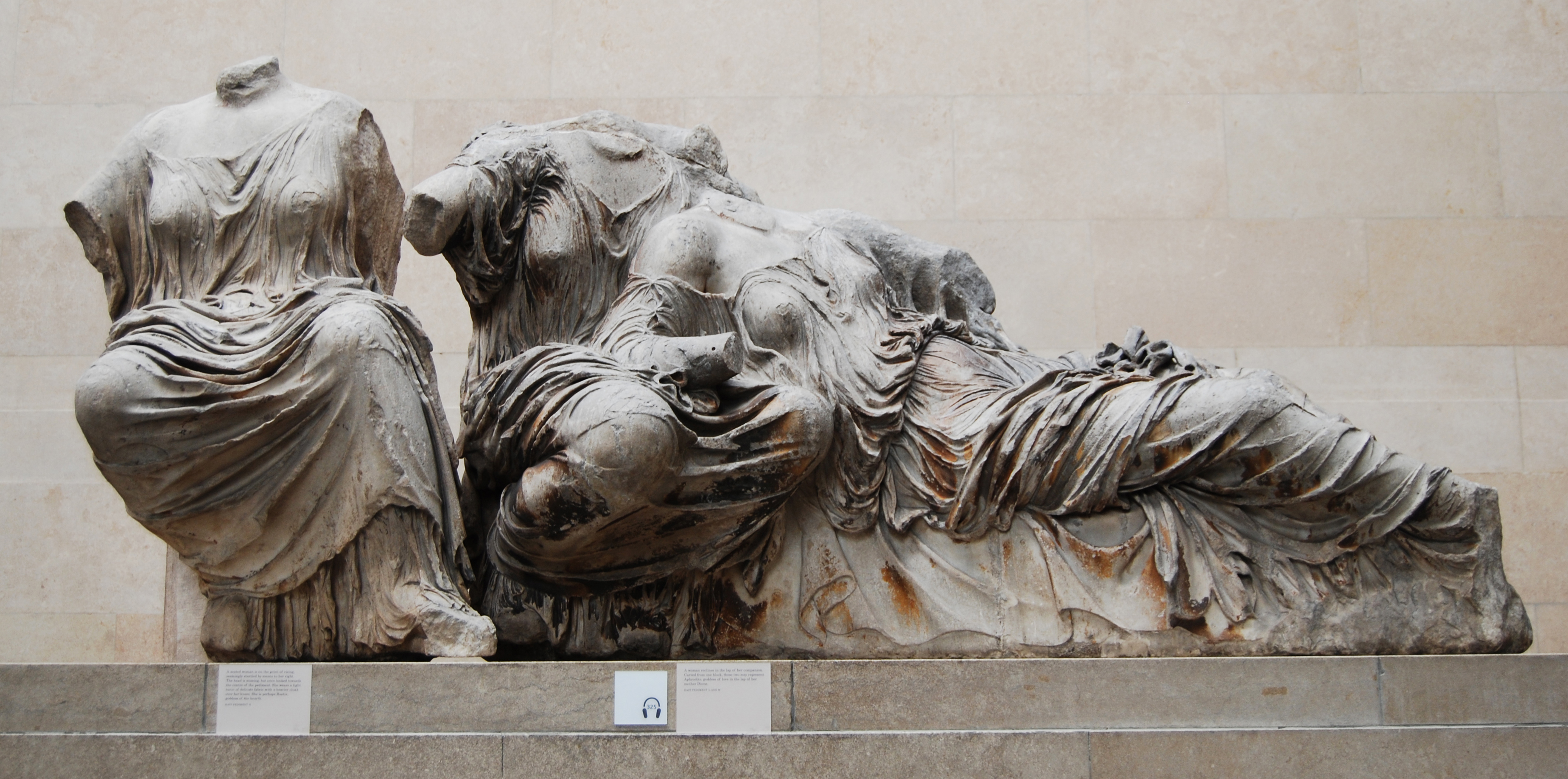 Figures of three goddesses from the east pediment of the Parthenon - British Museum Attributed to Agoracritos.